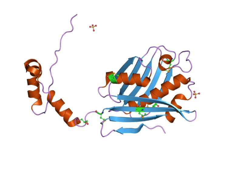 Cartoon representation of the molecular structure of protein registered with 1i7f code.